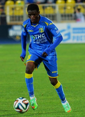 Moussa Doumbia